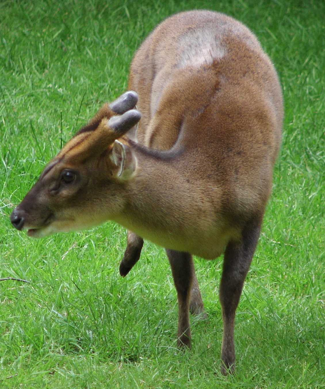 Muntiacus reevesi (Chinese Muntjak deer) in Cologne Zoo, Germany. (The image title was my mistake)